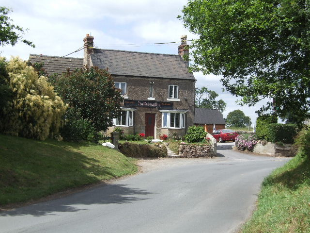 The Railway, Yorton, Salop. Classic tiny rural pub which can find space for three or four Shropshire beers. Lucky commuters who get off at the nearby Yorton station on the Shrewsbury Crewe line, itself a remarkable survivor.